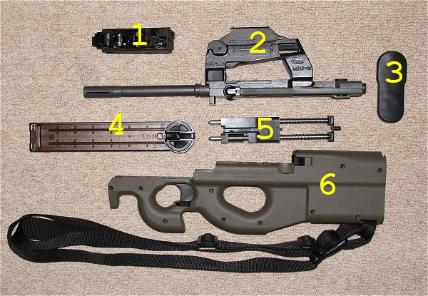 Photograph taken of PS90 and all of the contents in the box: Owner's manual, red note paper containing instructions on operation of ejection port cover as a bolt hold open, magazine, and PS90 carbine.